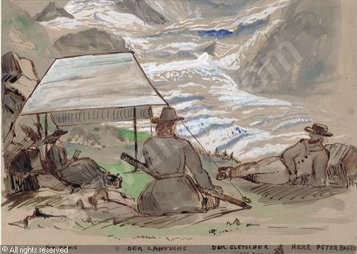 Travelers by a swiss glacier